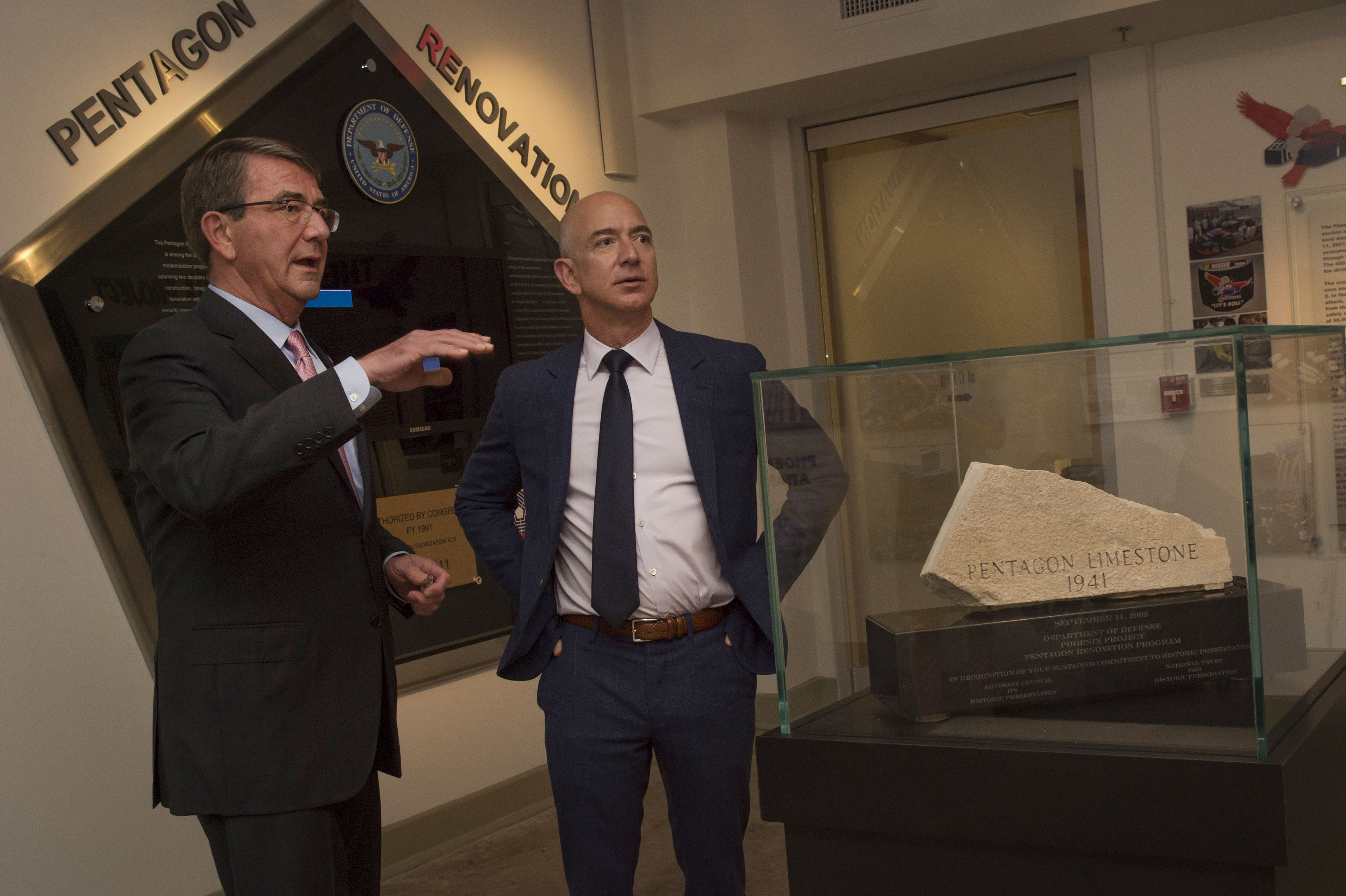 Secretary of Defense Ash Carter meets with Jeff Bezos on May 5, 2016.